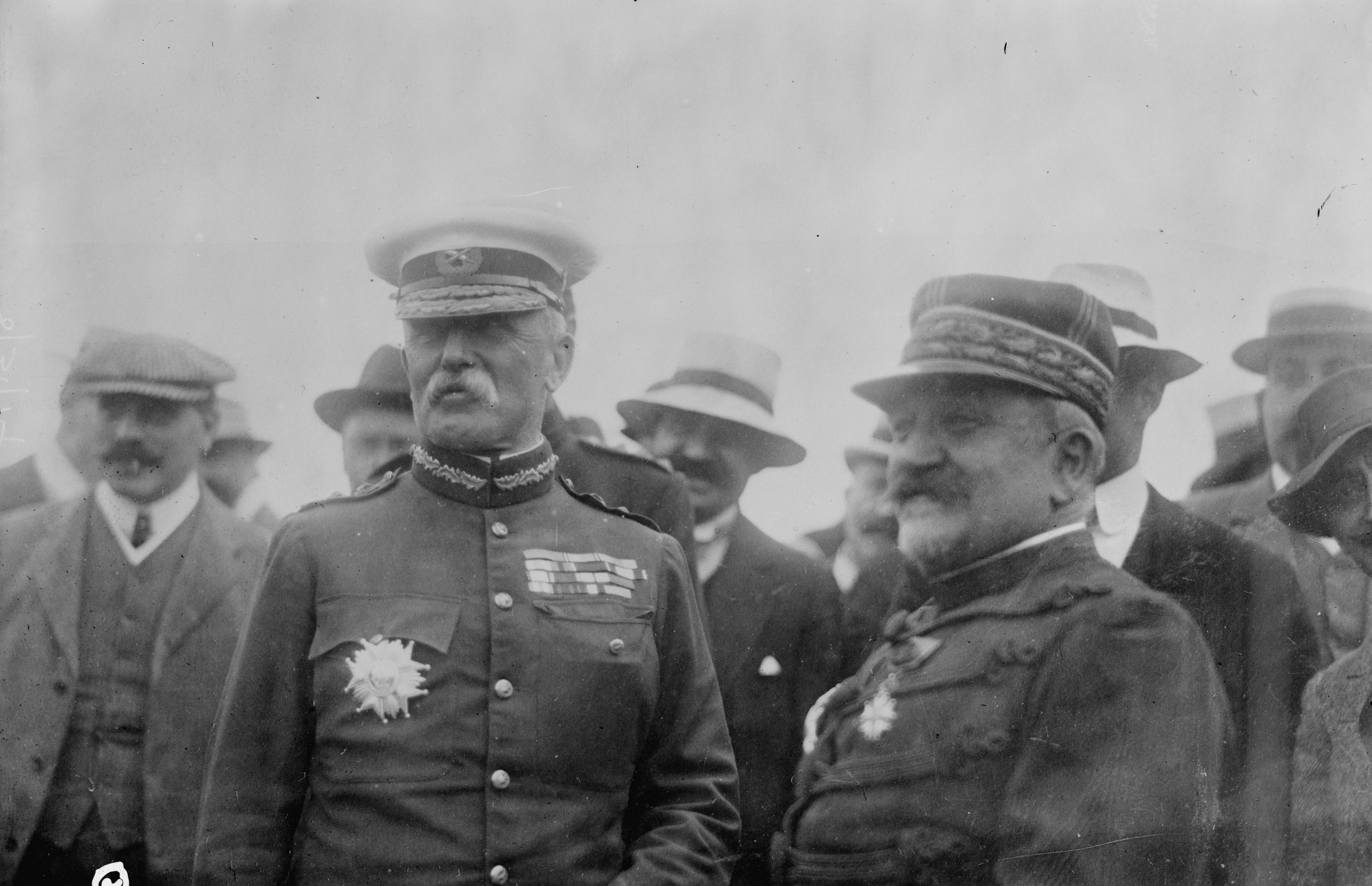 John French, 1st Earl of Ypres in Paris with the French Minister of War Jean Brun.